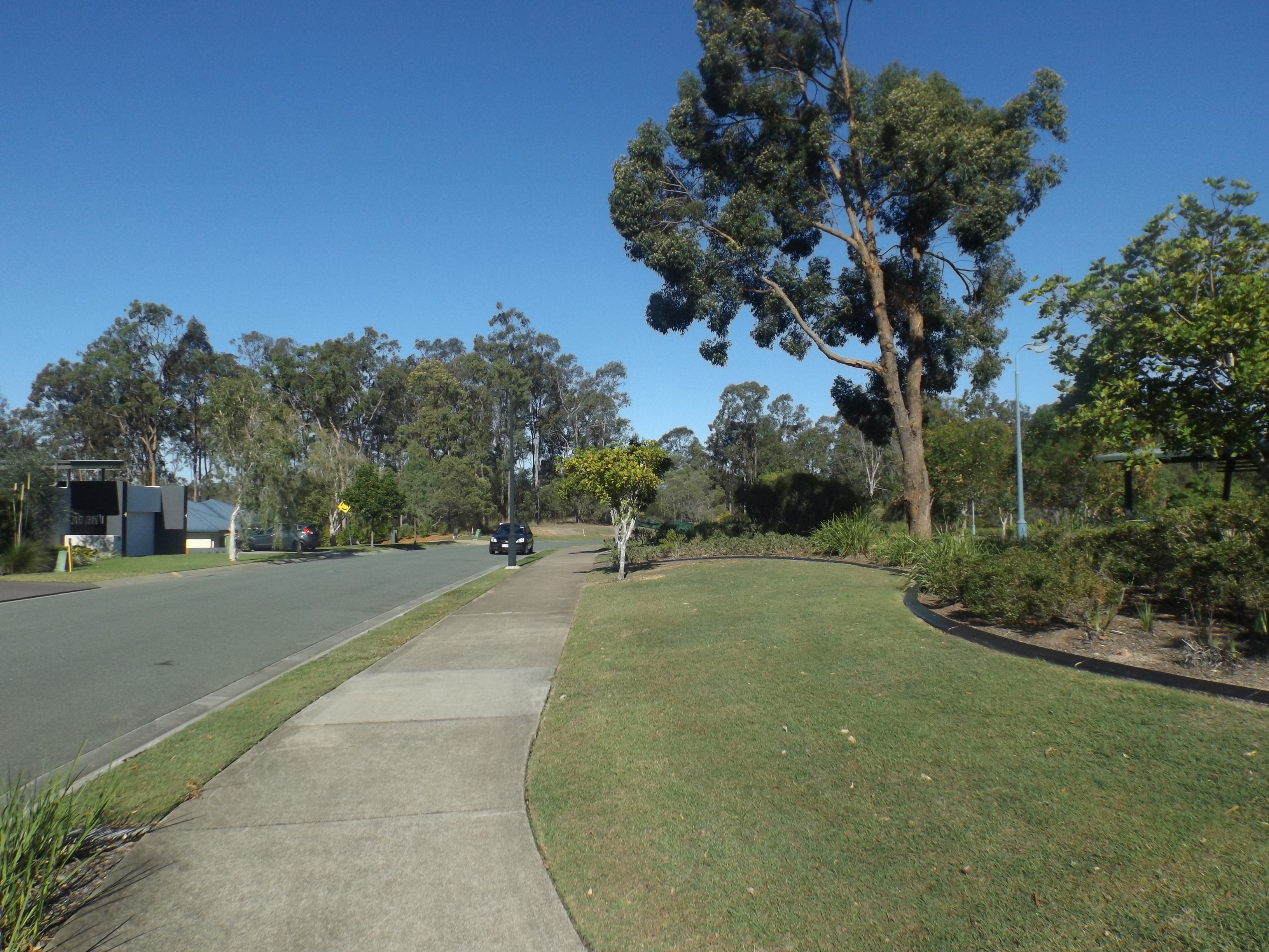 Photo of park along Scoparia Drive at Brookwater in City of Ipswich, Queensland, Australia.